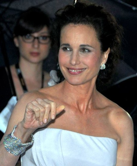 Andie MacDowell at the Cannes Film Festival